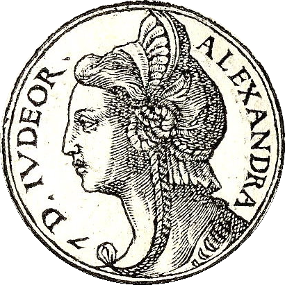 Queen Salome Alexandra